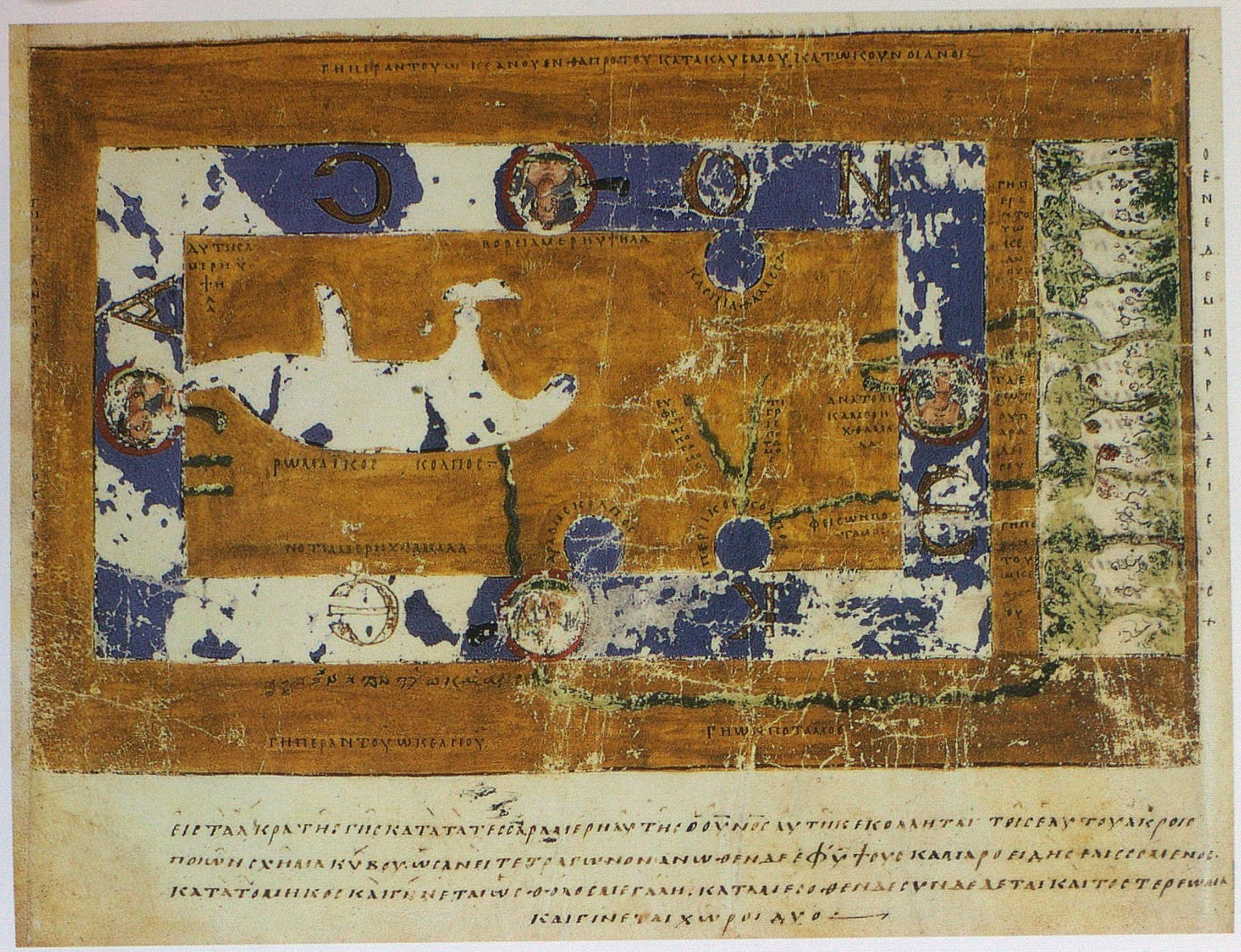 A map of the world in a medieval manuscript of the „Christian Topography“: Rome, Biblioteca Apostolica Vaticana, Vat. gr. 699, fol. 40v.